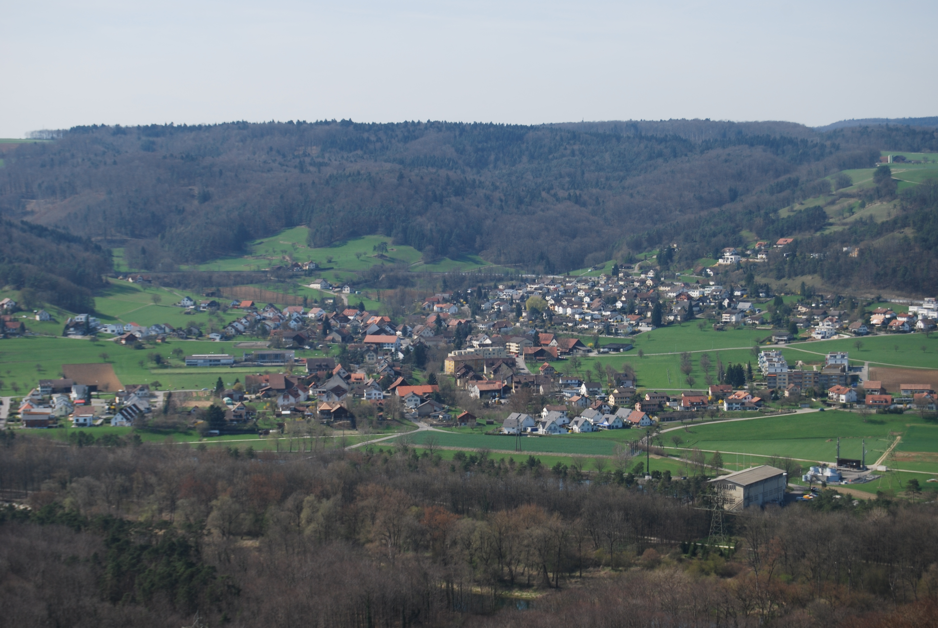 Villnachern seen from Castle Habsburg, canton of Aargau, SwitzerlandEsperanto: Villnachern vidita de Kastelo Habsburgo, Kantono Argovio, Svislando